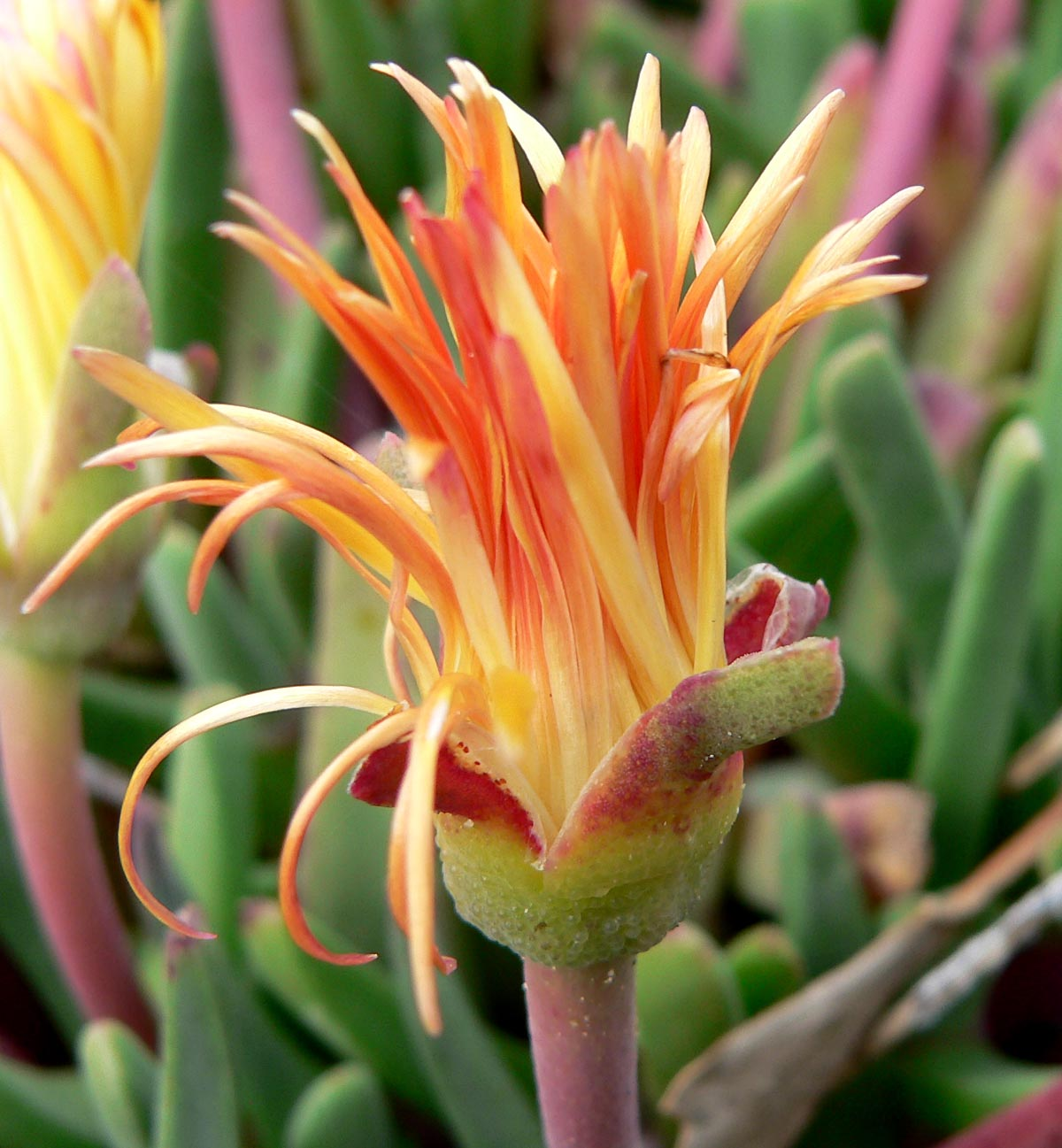 Photo of Bijlia tugwelliae at the University of California Botanical Garden